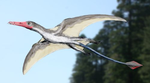 Angustinaripterus